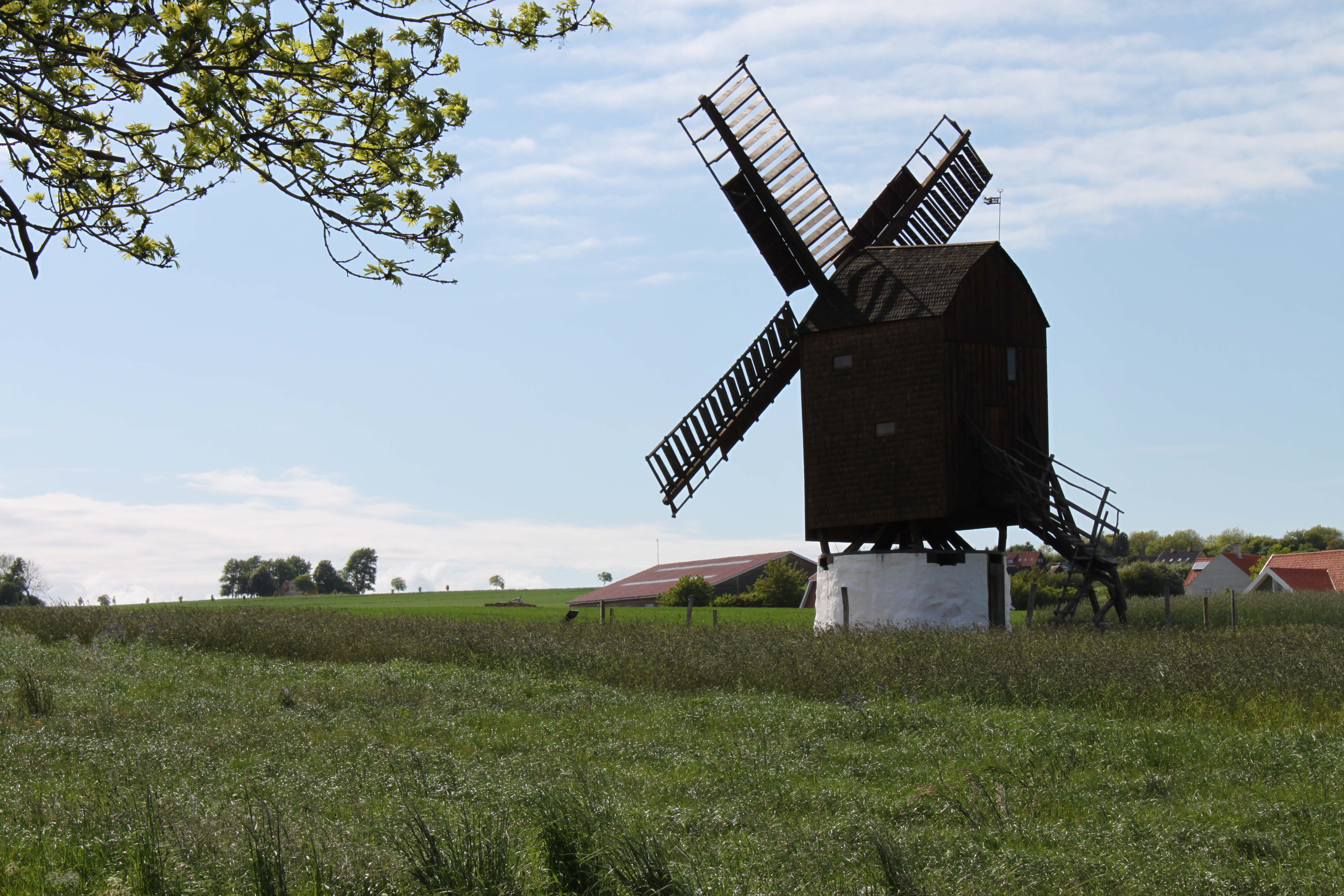 Tejn post mill, moved to Melsted on the island of Bornholm in Denmark